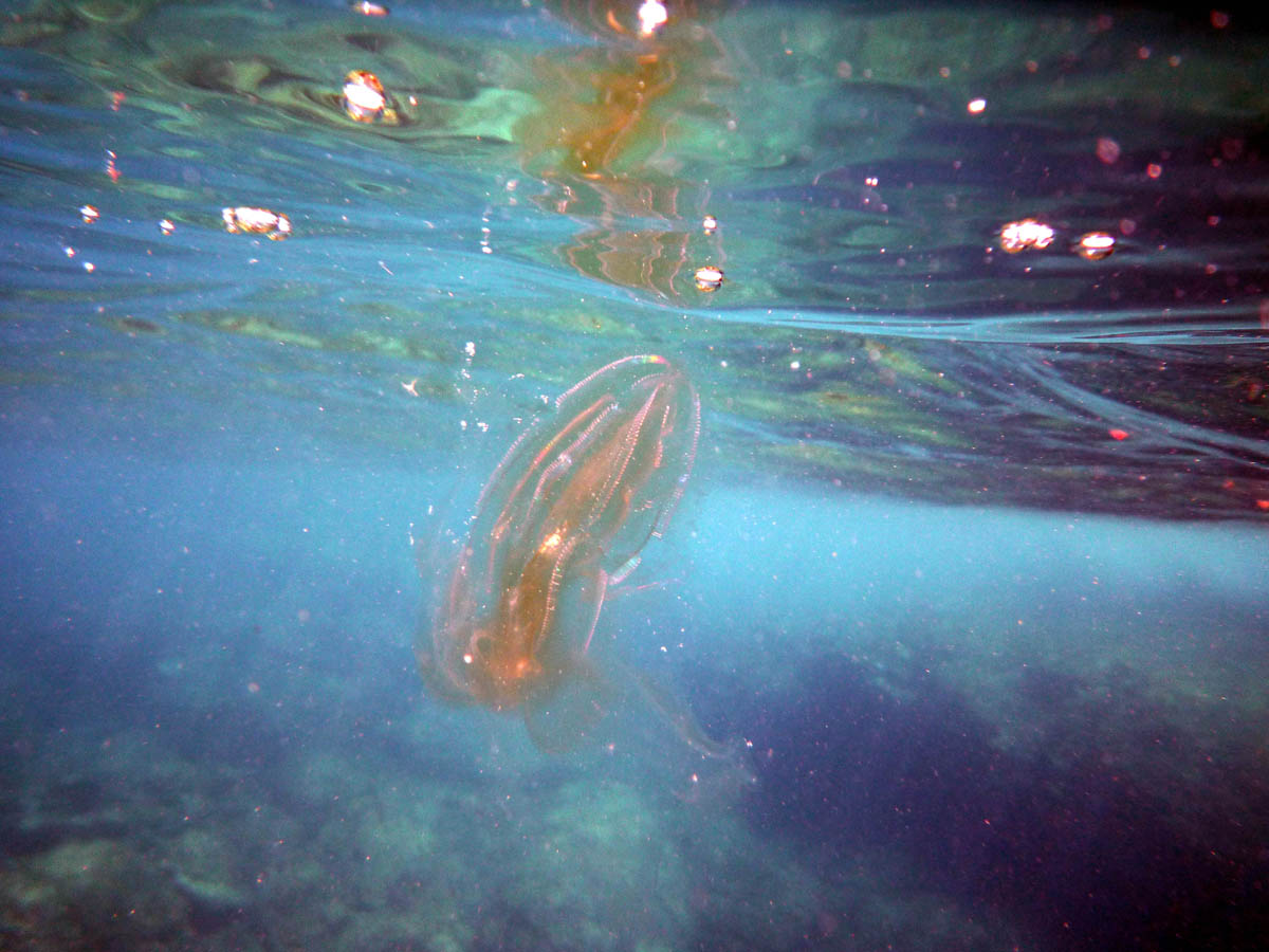 Unidentified Ctenophora in the waters of de Cabo de Palos in Cartagena, Spain. Probably Leucothe multicornis.